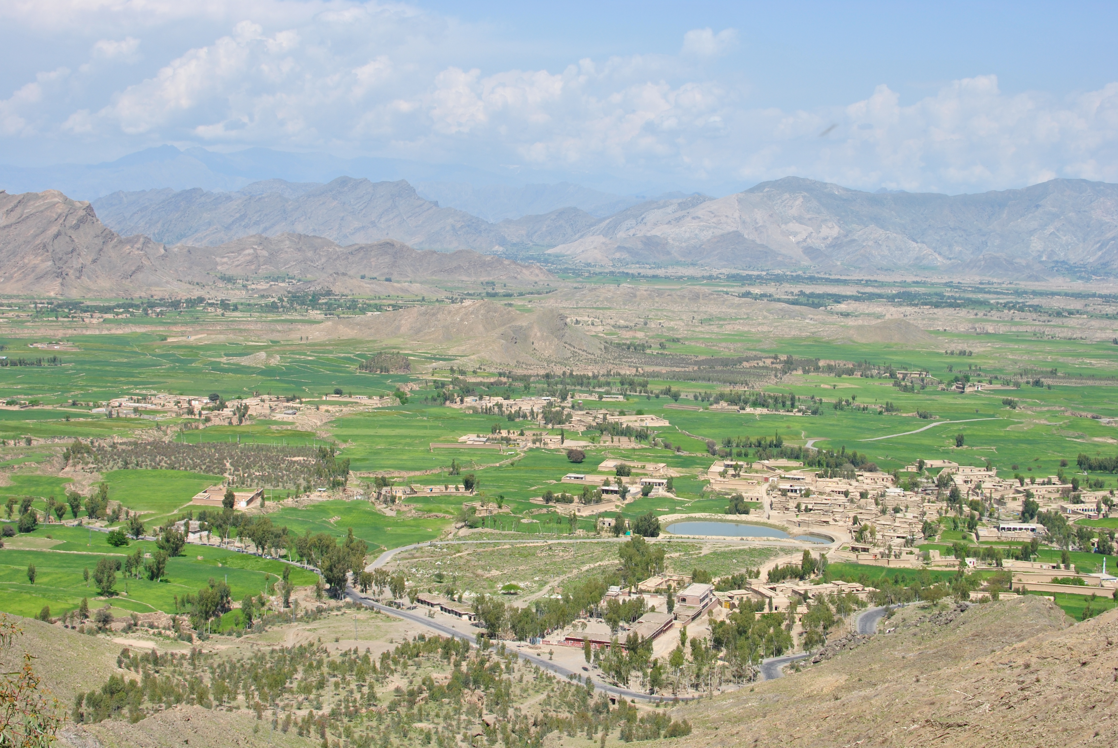 Nahqi, Mohmand Agency